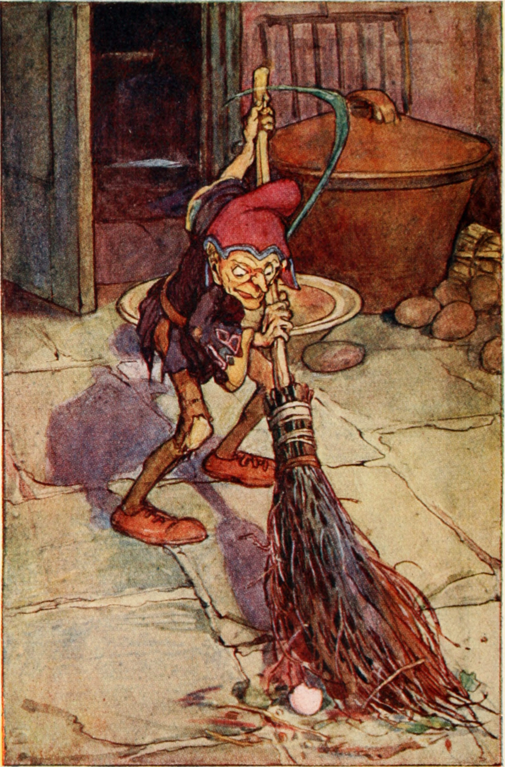 Title: The brownies and other tales Year: 1910 (1910s) Authors: Ewing, Juliana Horatia Gatty, 1841-1885 Woodward, Alice B., ill Subjects: Children's stories Publisher: London : G. Bell & Sons Text Appearing Before Image: Bit of Green—Monsieur the Viscounts Friend—The Yew Lane Ghosts—.A Bad Habit—.\ Happv Family.)STORIES FROM AUNT TUDY. Selected by D. Cunningham Craig. Illustrated by Ethel F. Everett.THE LITTLE DUKE. By Charlotte M. Yonge. Illustrated by H. R. .Millar.JACKANAPE:5 AND OTHER STORIES. By Mrs. Ewing.Illustrated by H. M. Brock.(Jackanapes—Daddy Darwins Dovecot—The Storv- of aShort Life.)MOTHER MOLLY. By F. M. Phard. Illustrated by M. V. Wheelhouse.ALICE IN WONDERLAND. By Lewis Carroll. Illustr.ited by Alice B. Woodward.MARYS MEADOW AND OTHER STORIES. By Mrs. Ewing.Illustrated by M. V. Wheelhouse.(Marys Meadow—Letters from a Little Gardv^n—GardenLore—Sunflowers and a Rushlight—Dandelion Clocks—TheTrinity Flower—Ladders to Hoavni.)OLD-F.ASHIONEP FAIRY TALES. By Mr.^ Ewing. Illustrated bv W. Graham Robertson.LOST LEGENDS OF THE KURSl RY SONGS. By Mary SeniorClark. Illustrated by Estella Canziani. (In the Press. G. BELL & SONS, LTD., York House, Portugal St., W.C. 2. Text Appearing After Image: The Brownie (see p. i (Je^OTHER T2\IES